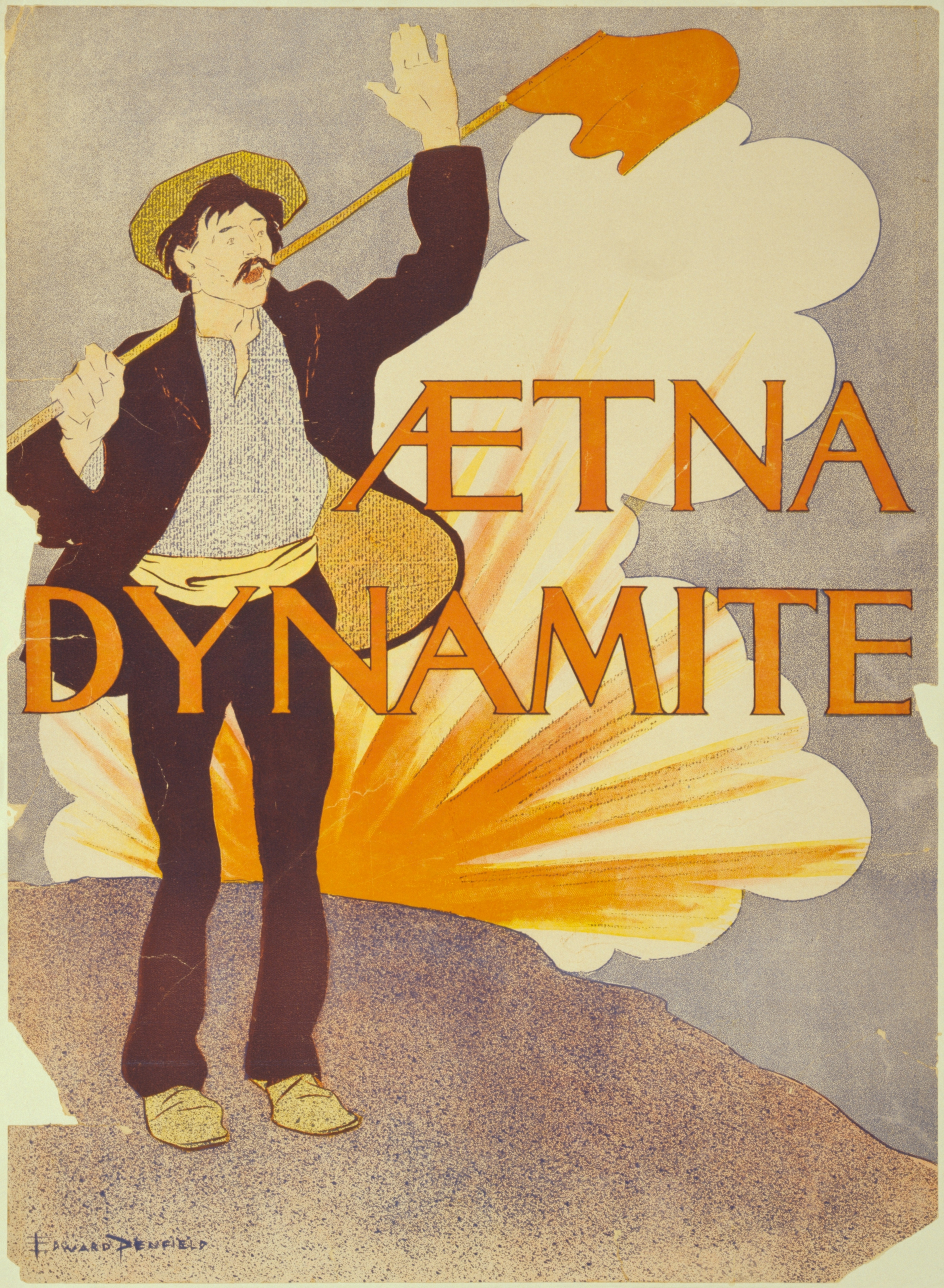 Advertisement for the Aetna Dynamite Company. Poster shows workman with a red flag; in background, an explosion.